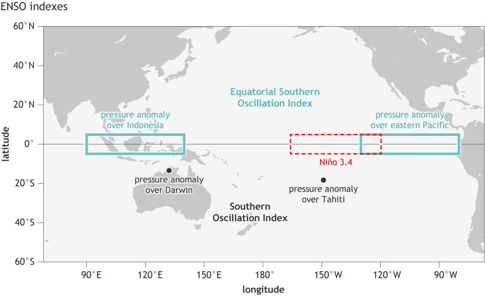 The oldest indicator of the ENSO state is the Southern Oscillation Index (SOI): the difference between the atmospheric pressure at sea level at Tahiti and at Darwin (1); see Fig. 1. A seesaw in pressure at these locations reflects the atmospheric component of ENSO, discovered in the early 1900s by Walker and Bliss (1932) and others. During El Niño, the pressure becomes below average in Tahiti and above average in Darwin, and the Southern Oscillation Index is negative. During La Niña, the pressure behaves oppositely, and the index becomes positive. The fact that the SOI is based on the sea level pressure at just two individual stations means it can be affected by shorter-term, day-to-day or week-to-week fluctuations unrelated to ENSO. But averaging the index values over months or seasons helps to isolate more sustained deviations from the average, like those associated with ENSO. Another limitation of the Southern Oscillation Index is that both Tahiti and Darwin are located somewhat south of the equator (Tahiti at 18˚S, Darwin at 12˚S), while the ENSO phenomenon is focused more closely along the equator. The Equatorial Southern Oscillation Index overcomes this problem, as it uses the average sea level pressure over two large regions centered on the equator (5˚S to 5˚N) over Indonesia and the eastern equatorial Pacific (see Fig. 2). However, data for this index only extend back to 1949 (2). In contrast, the Tahiti-Darwin index goes back to the late 1800s because of longer station records. Due to its longer records, the Tahiti-Darwin index was used to represent the ENSO state in a set of landmark studies relating ENSO to its global climate effects (Ropelewski and Halpert 1986, 1987, among others).